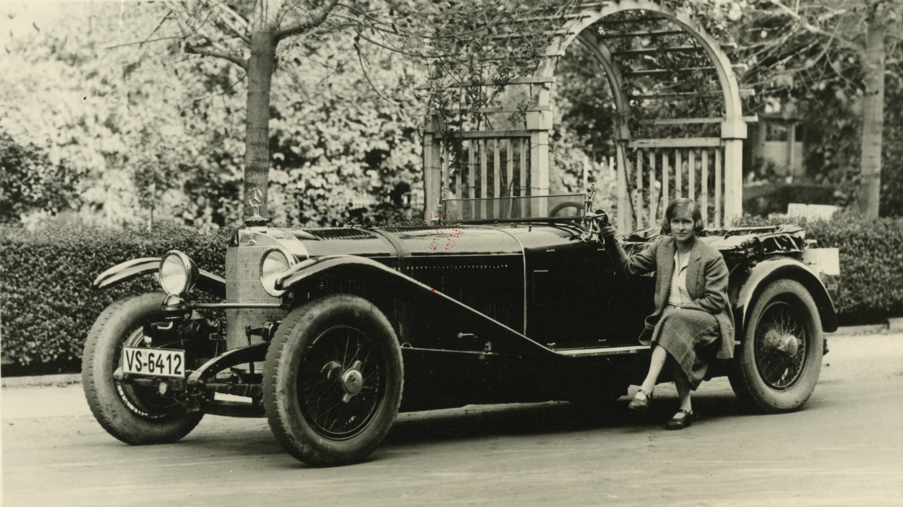 Ernes (Ernesta) Merck, née Rogalla von Bieberstein, German racing driver.